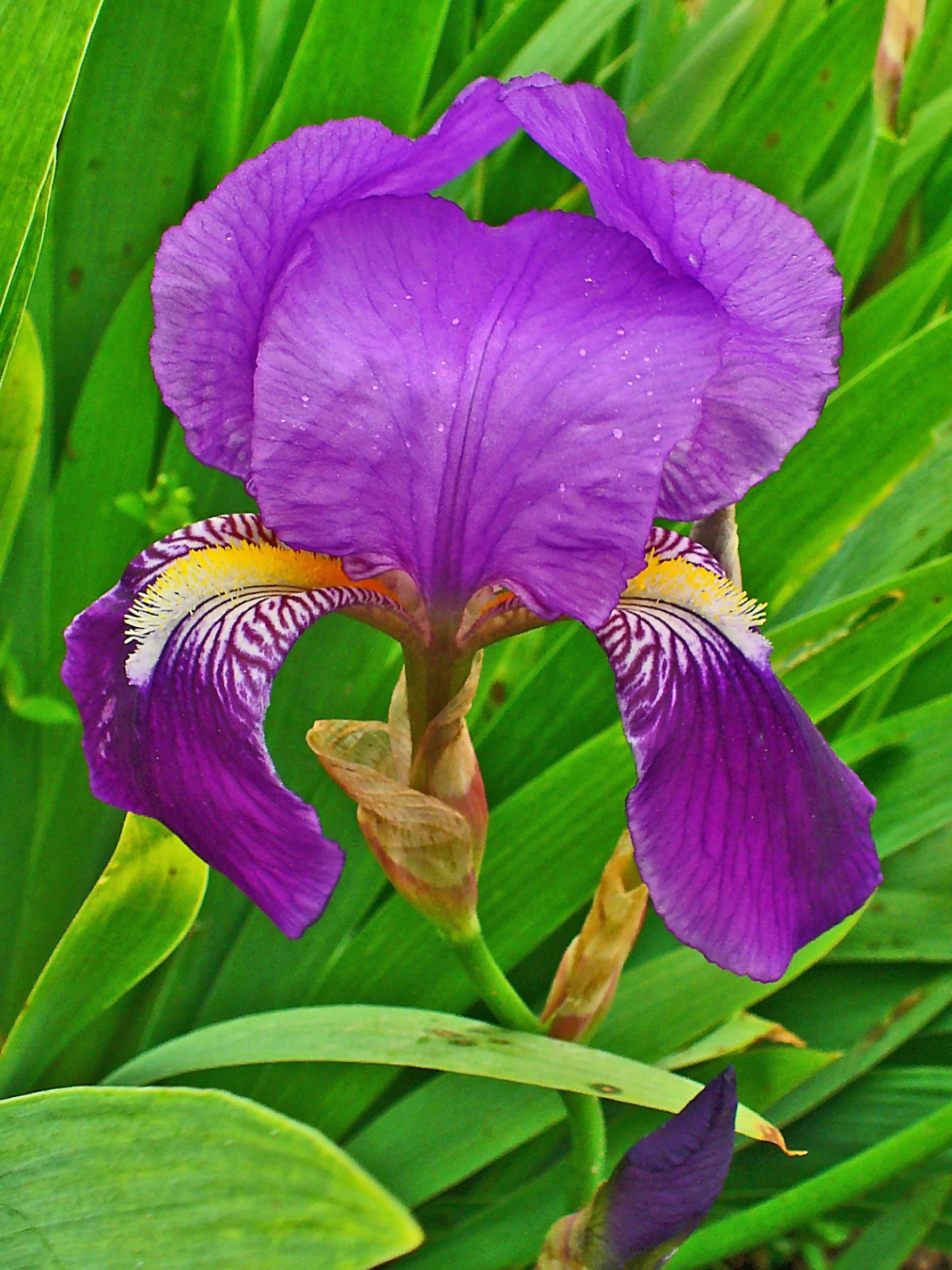 Iris germanica, Iridaceae, German Iris, flower. The fresh, underground parts are used in homeopathy as remedy: Iris germanica (Iris-g.)